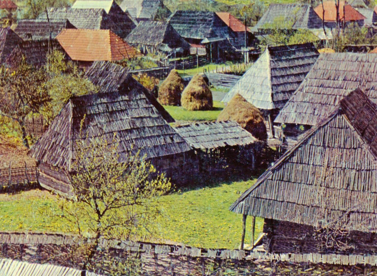 Paper photography taken by S.I.Cepleanu 1990 on paper, scanned & recolorized today - Old village of Negresti - Rural museum.